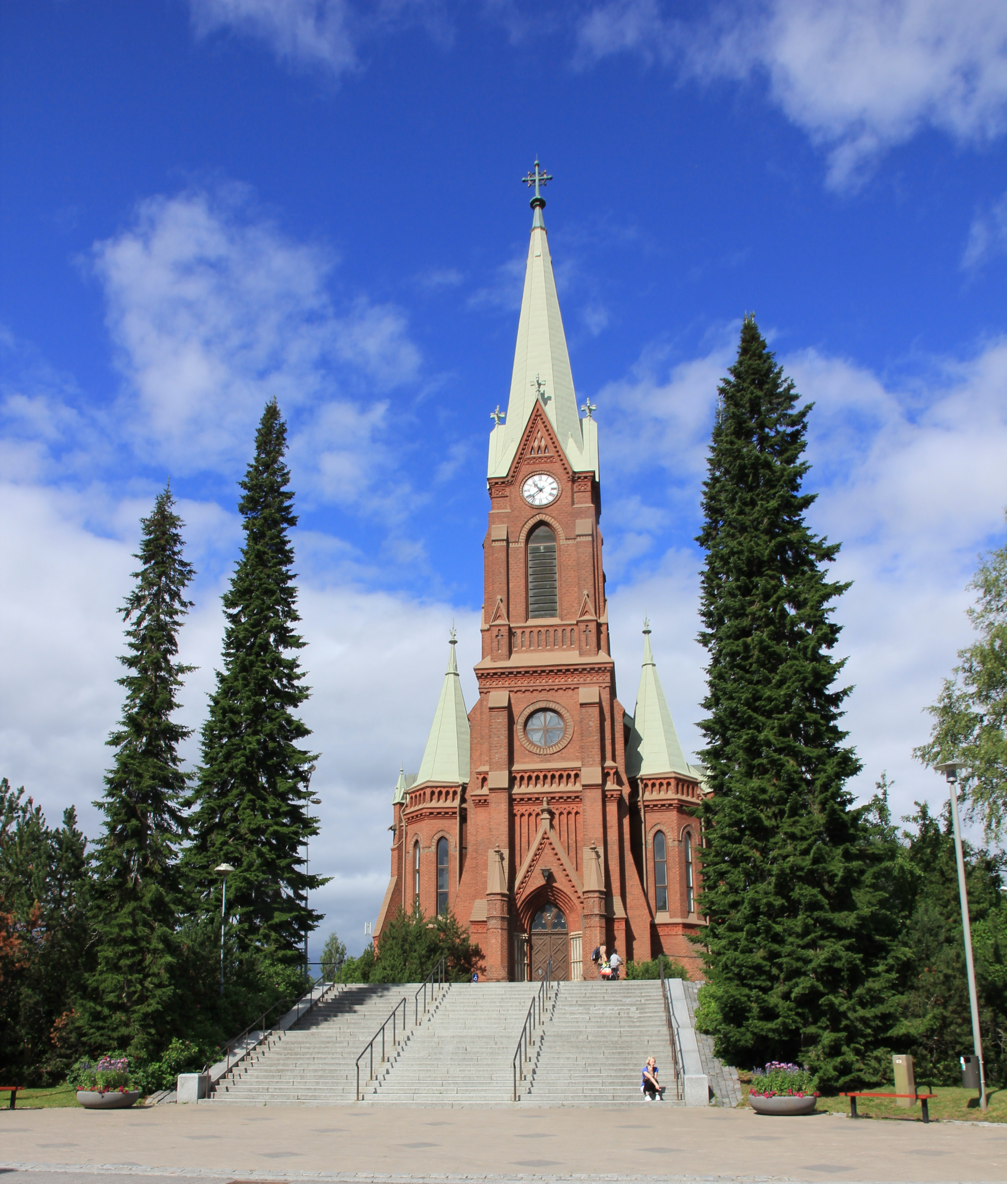 Mikkeli cathedral.